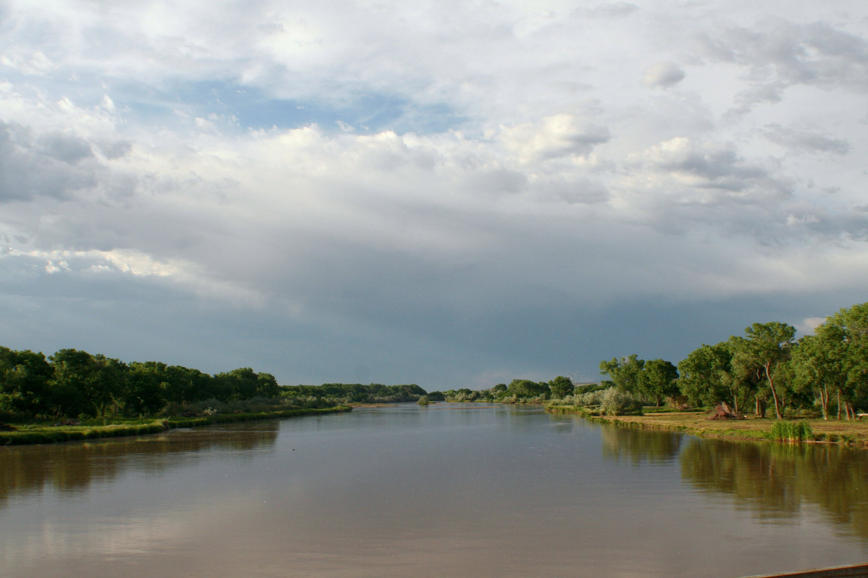 Rio Grande River just south of Albuquerque at the river crossing in Isleta Pueblo.